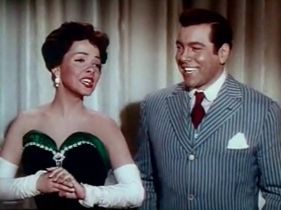 Cropped screenshot of Kathryn Grayson and Mario Lanza from the trailer for the film The Toast of New Orleans.